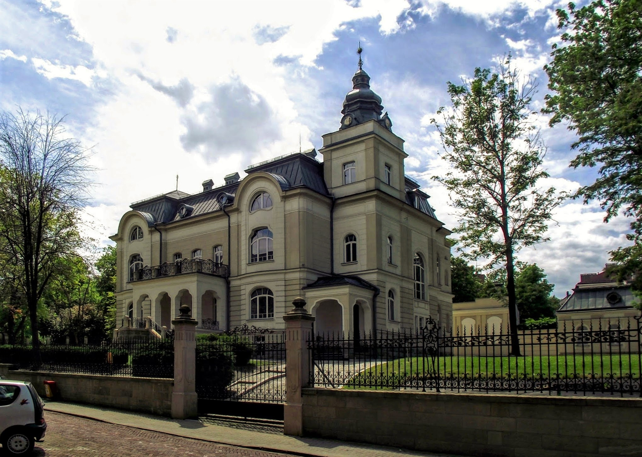 Schneider's House in Bielska-Biała